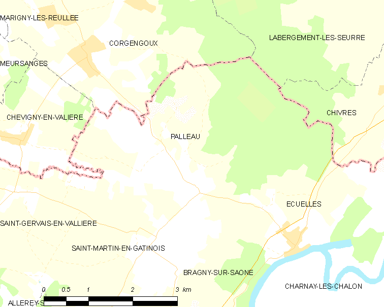 Map of French municipality